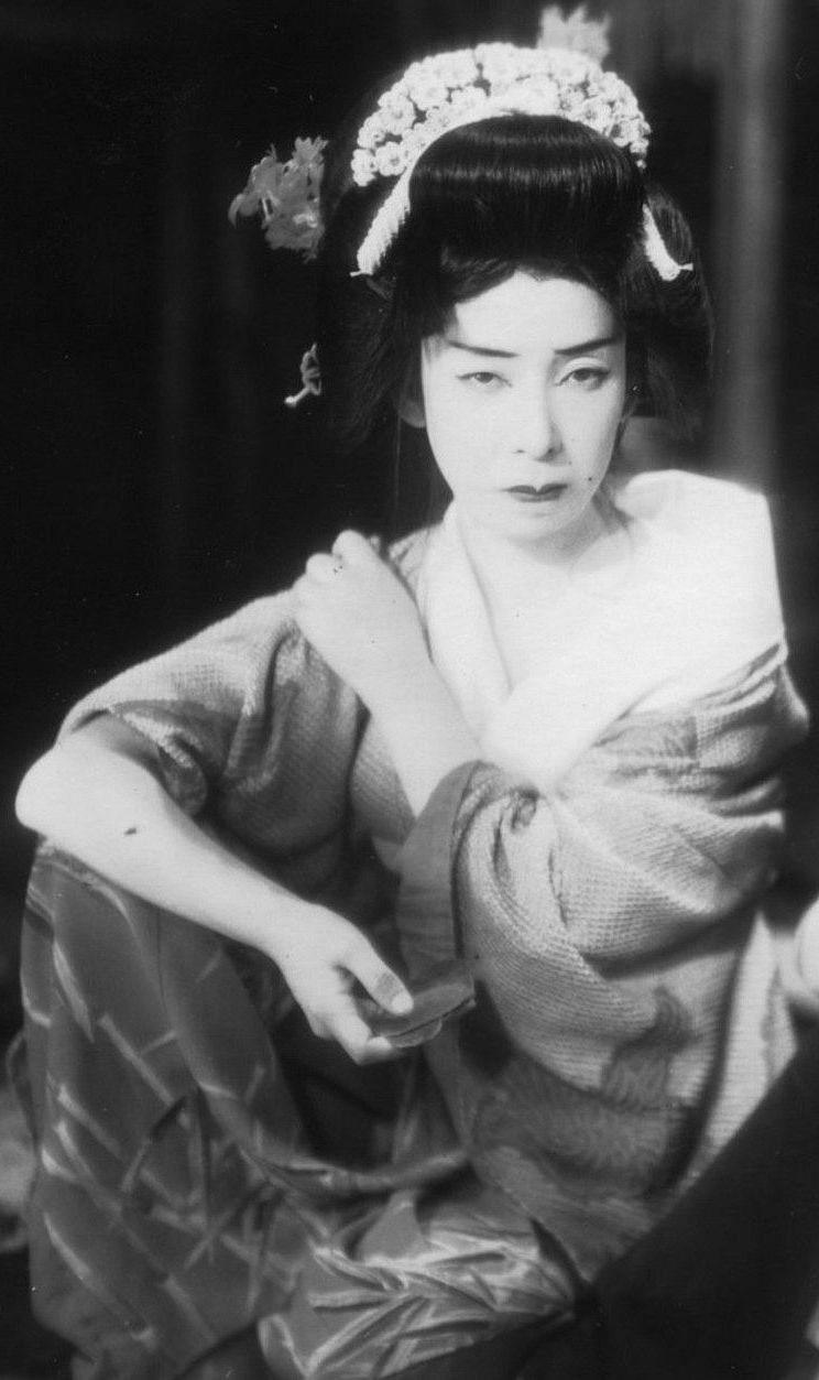 Yōko Umemura in Ojō Okichi (1935)